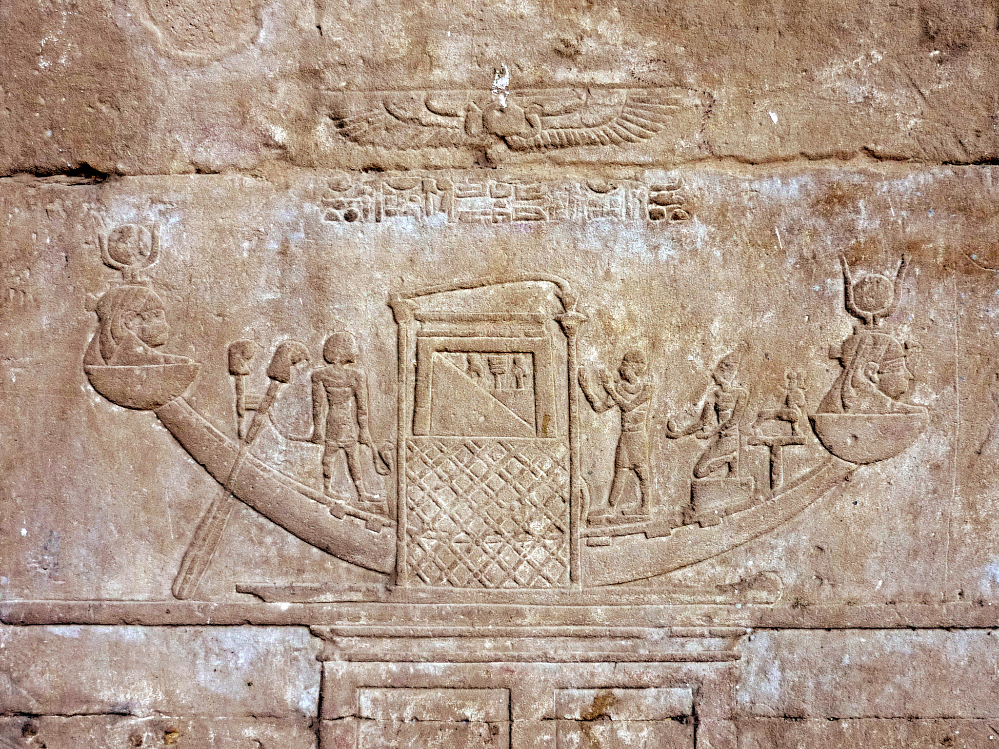 Hathor's divine bark - Wall relief in court, temple of Edfu, Egypt.